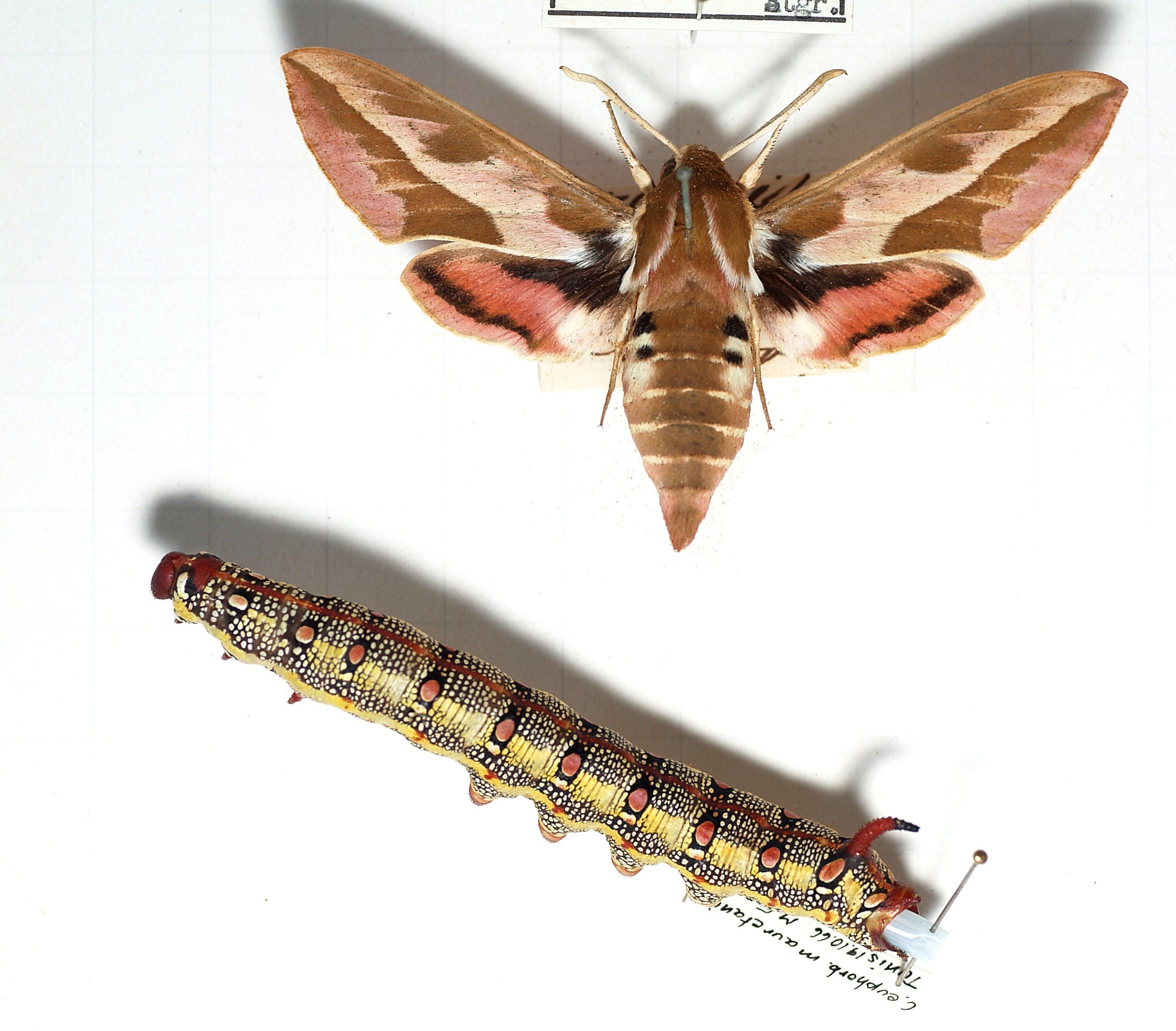 Hyles tithymali mauretanica